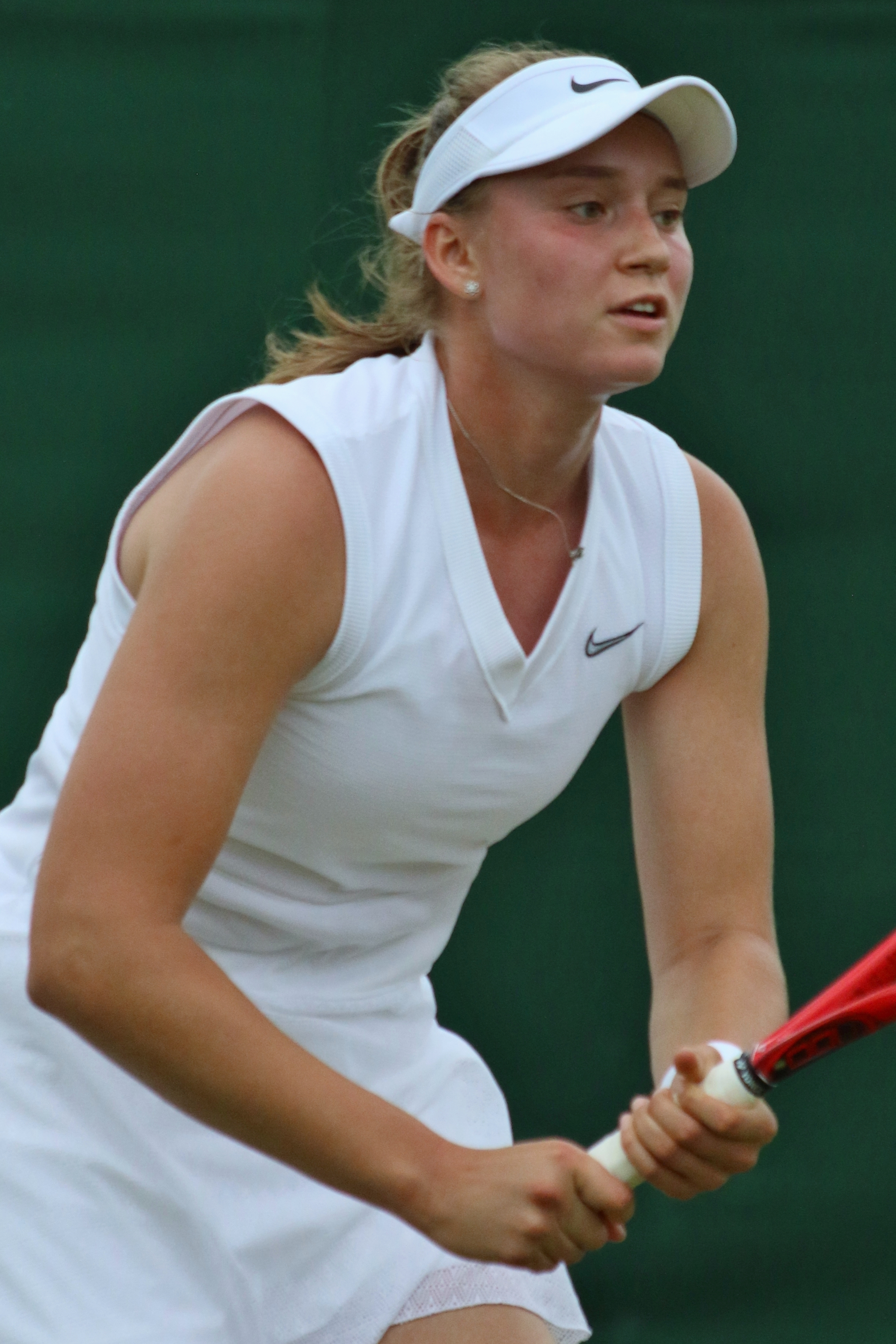 2019 Wimbledon Qualifying Tournament.